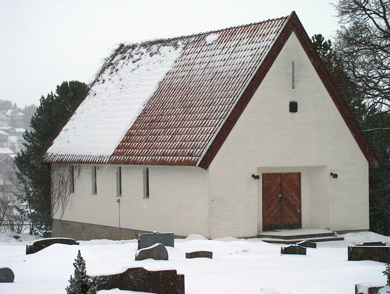 Norderhov kirke (Norderhov church, Ringerike, Buskerud, Norway), the 1967 mortuary (northern view). Photo: T. Bjornstad, 2006